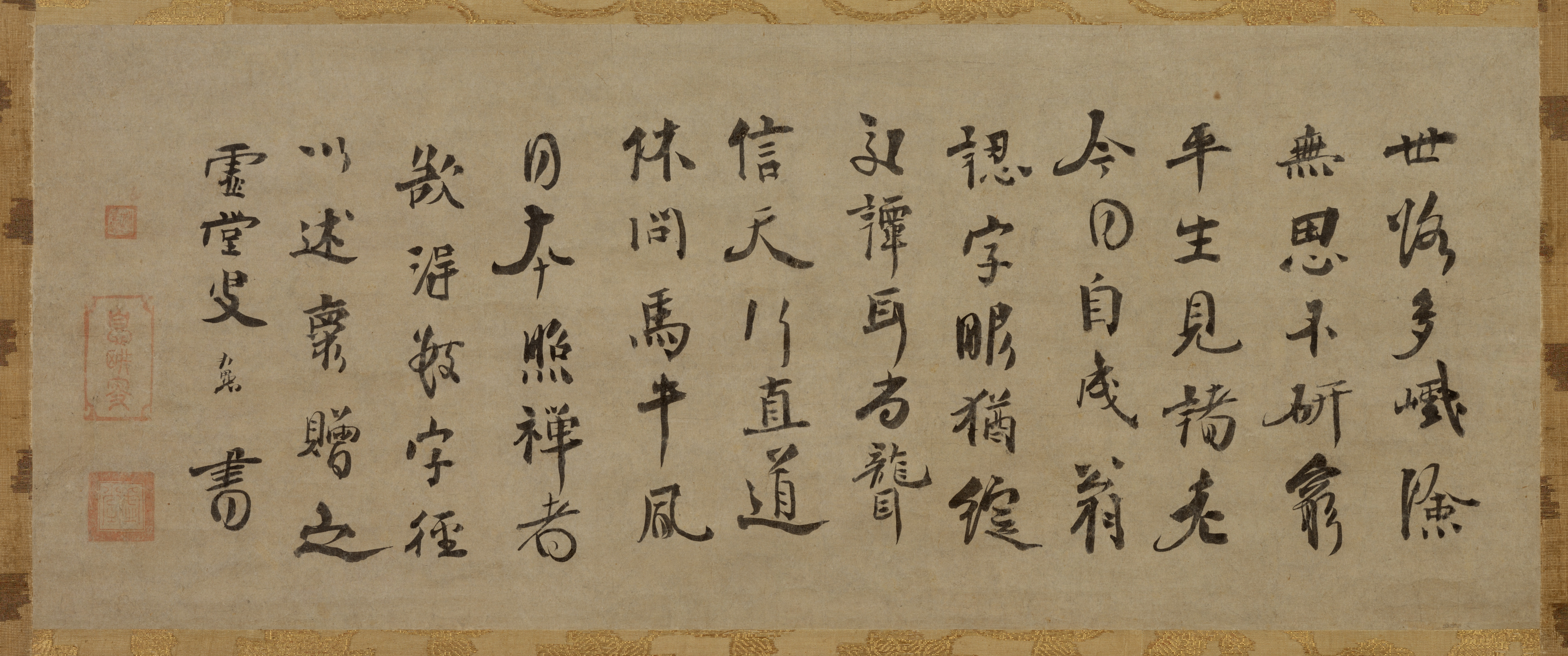 Teaching on Enlightenment (法語, hōgo). Dedicated to a brilliant Zen practitioner, possibly Mushō Jōshō (無象静照) (1234–1306). One hanging scroll, ink on paper, 28.5 × 70.0 cm (11.2 × 27.6 in). Located at the Tokyo National Museum, Tokyo.